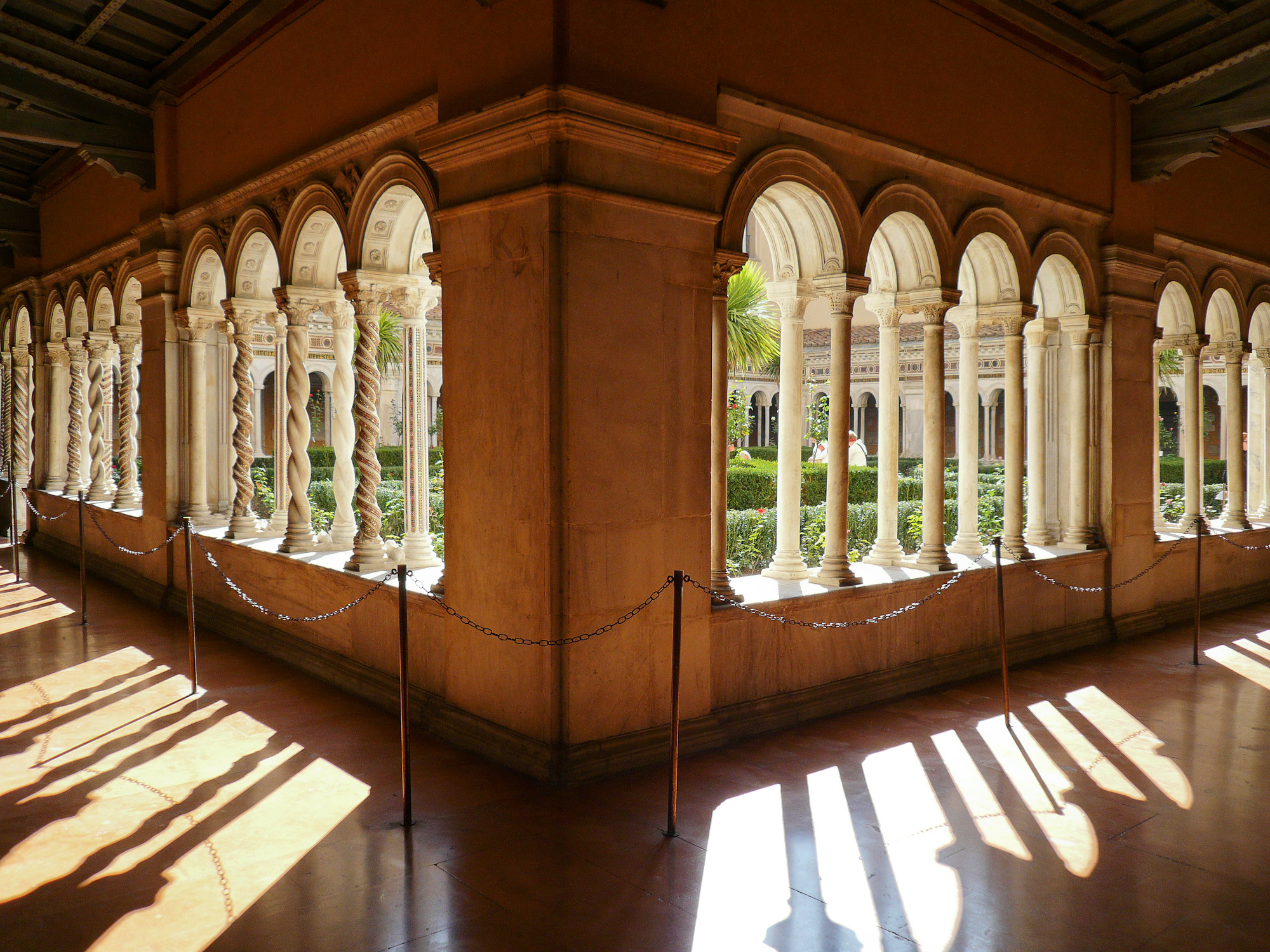 Cloister of the monastery of San Paolo fuori le mura, Rom, Italy